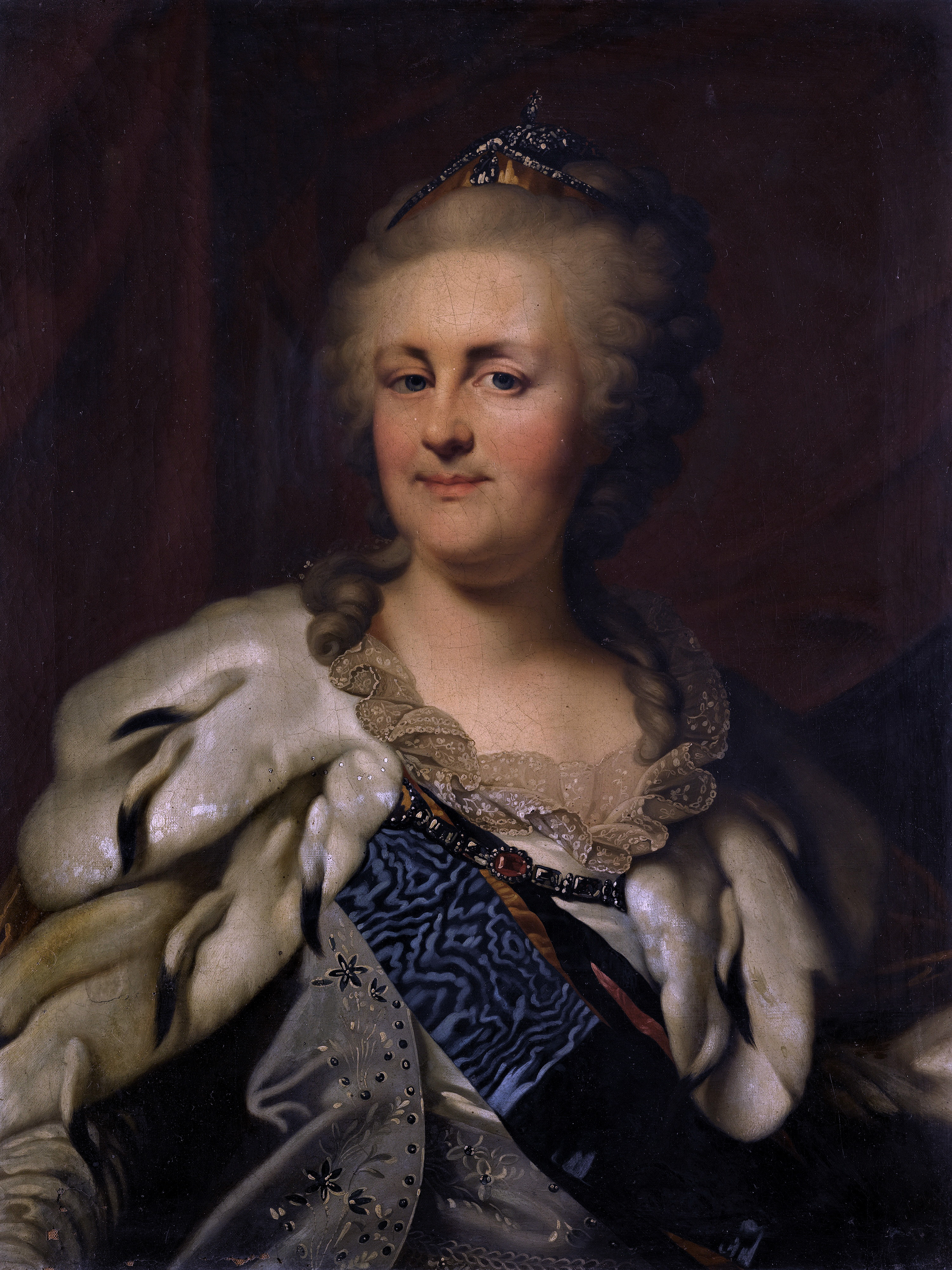 Portrait of Catherine the Great